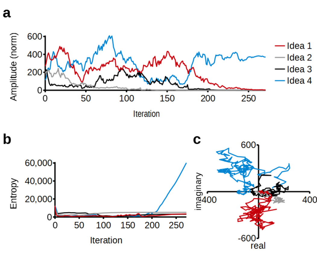 Competition of ideas within an GenI swarm: Graph a shows the evolution of absolute amplitudes during a GenI process operating in a four options environment. Due to its intrinsically chaotic behavior, it is impossible to predict the GenI process evolution at any point. Interestingly, here the option with the lowest initial chance finally wins. Chart b shows the according evolution of entropy rising dramatically at the end for the winning idea. Figure c displays the native paths of each idea in the complex plane. (ref. "The Source of the Universe" ISBN 9783848223572 )